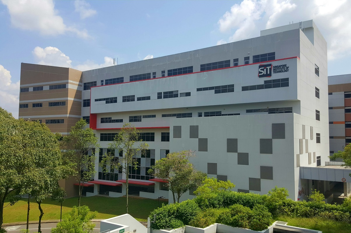 SIT NYP Building